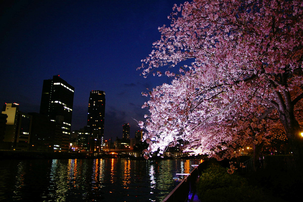 Minami-Temma Park at night, Osaka City, Japan